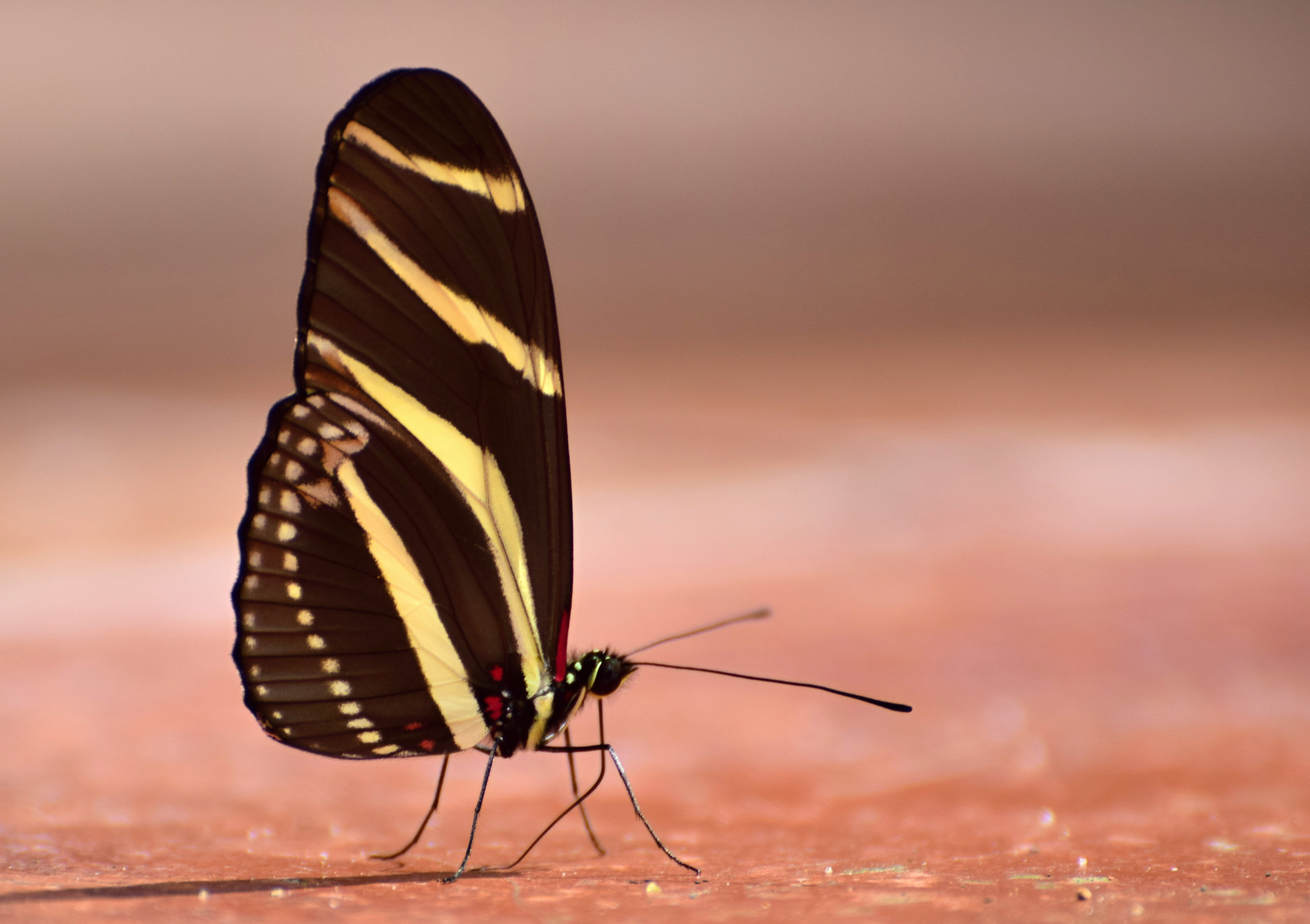 Heliconius charithonia (Nymphalidae)